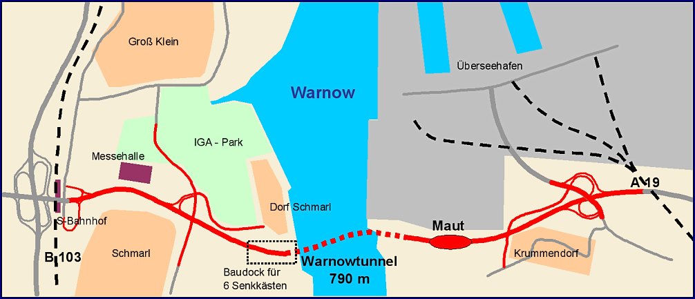 Warnowtunnel Rostock, Lageplan